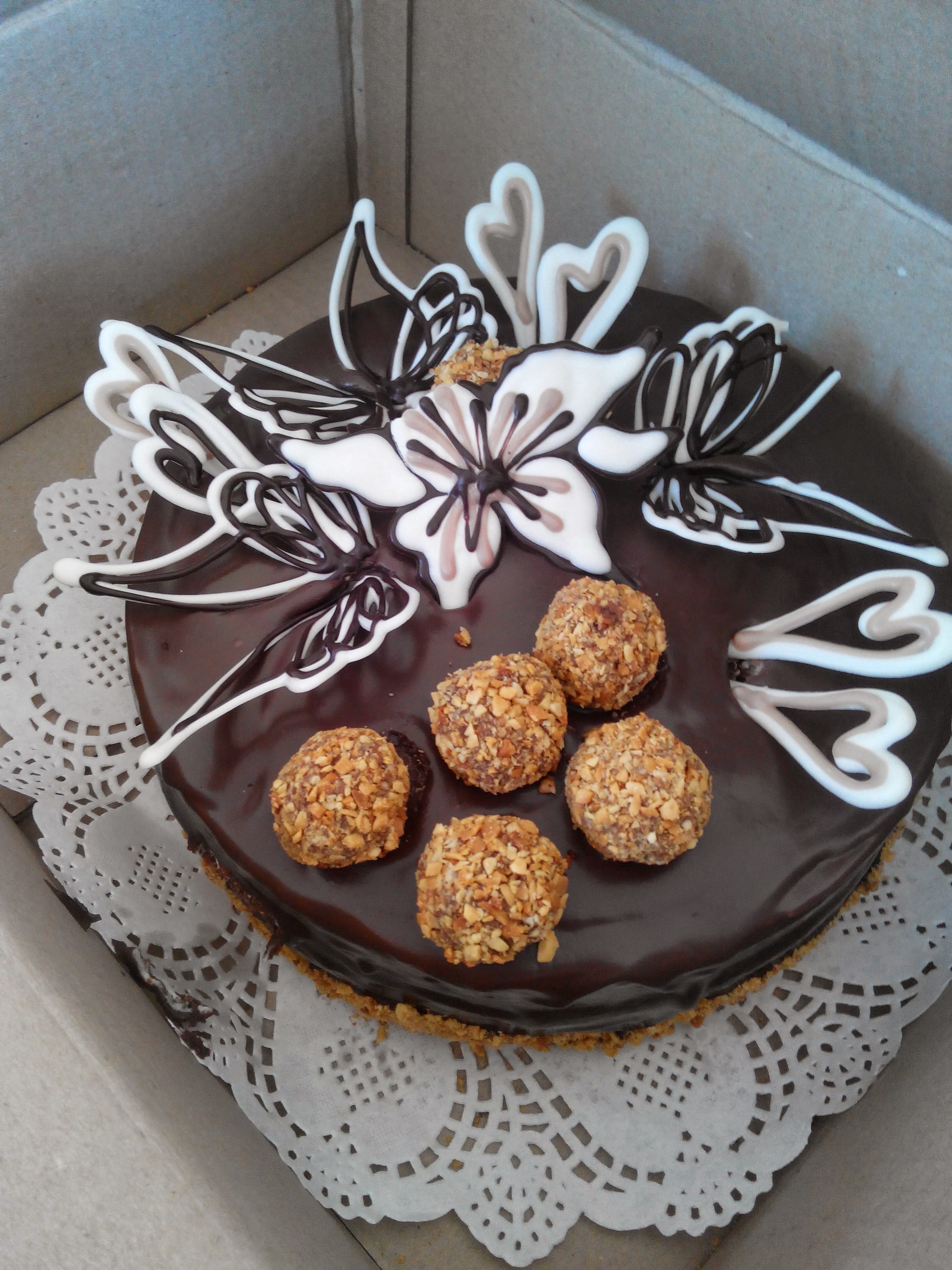 Chocolade cake